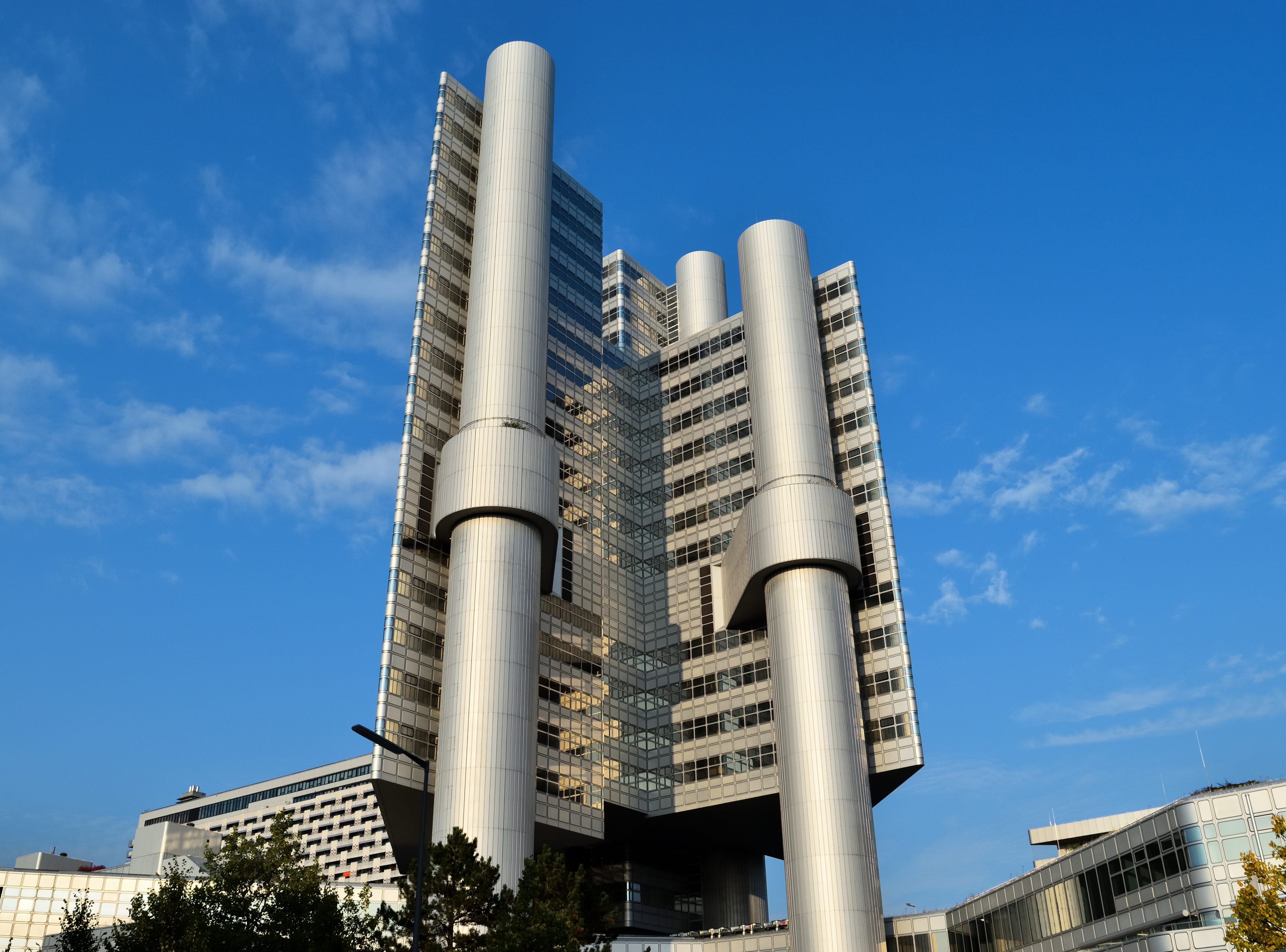 Hypo-Haus - Munich - September 2017